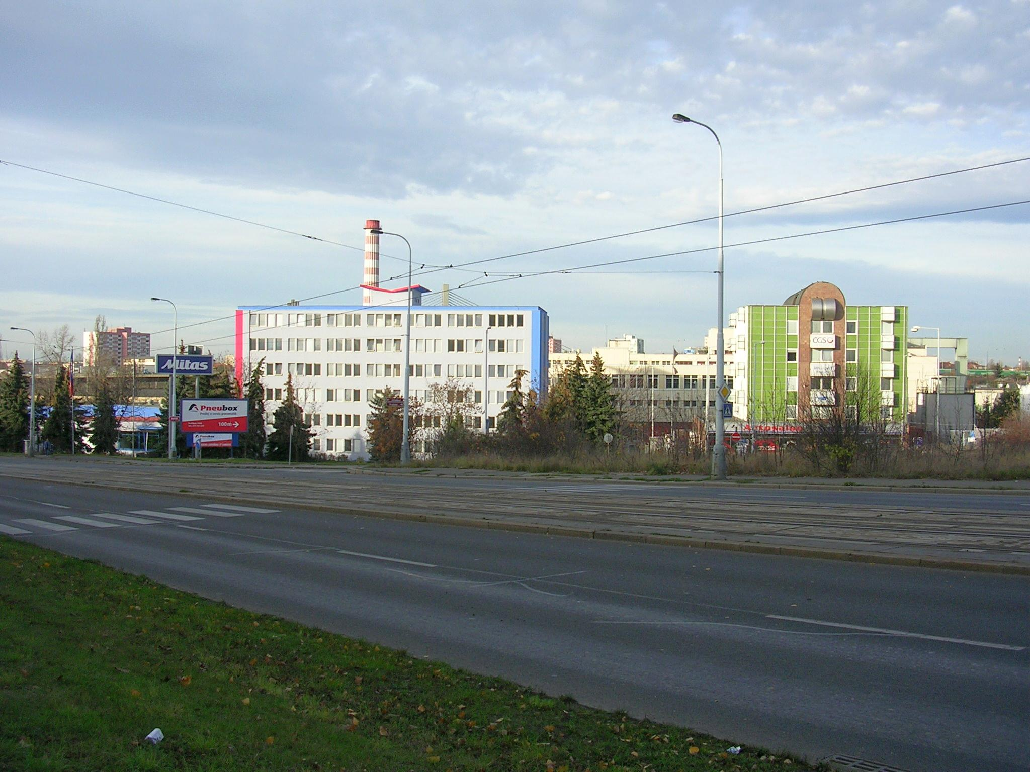 Záběhlice, Prague. Mitas factory.